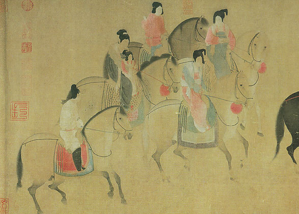 Spring Outing of the Tang Court